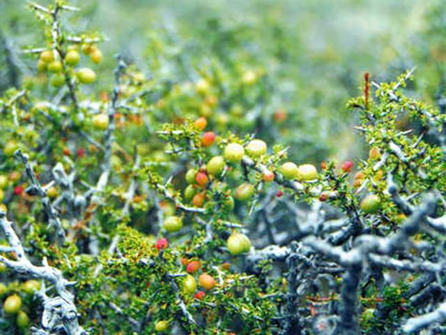 Unripe fruit of Condalia microphylla in detail